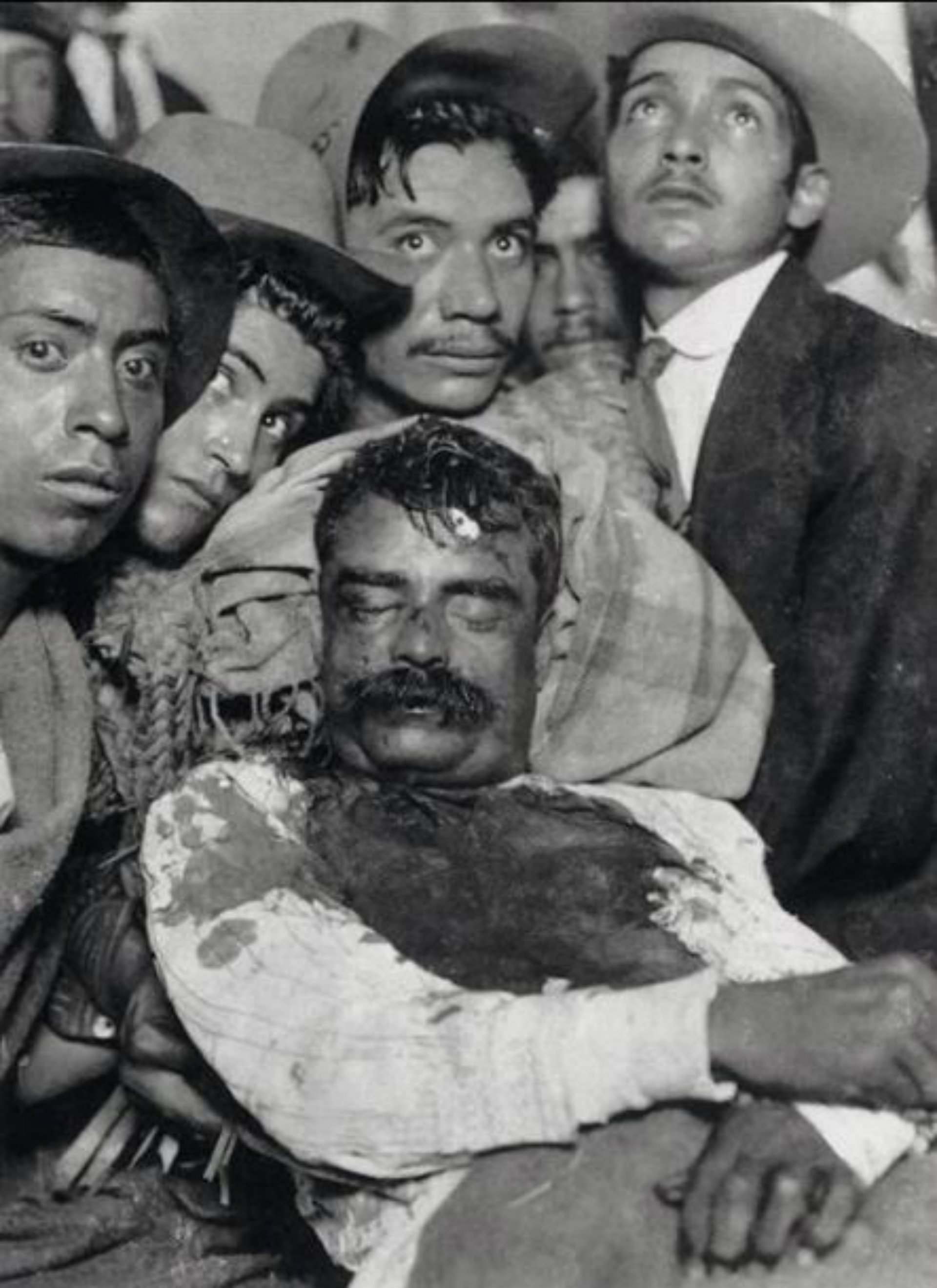 Rebel Emiliano Zapata surrounded by his comrades after being killed by Mexican government agents in the town of Cuautla, Morelos, Mexico.